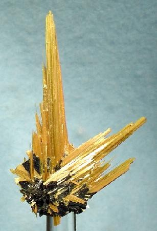 Rutile, Hematite Locality: Novo Horizonte, Bahia, Northeast Region, Brazil (Locality at ) Size: 4.3 x 2.7 x 0.6 cm. An aesthetic and beautiful cluster of radial, golden starbursts of rutile epitaxial on mirror-bright, black hematite crystals from the NEW find at Novo Horizonte, Brazil.